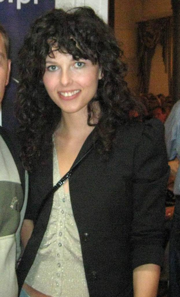 Singer Ramona Rey.